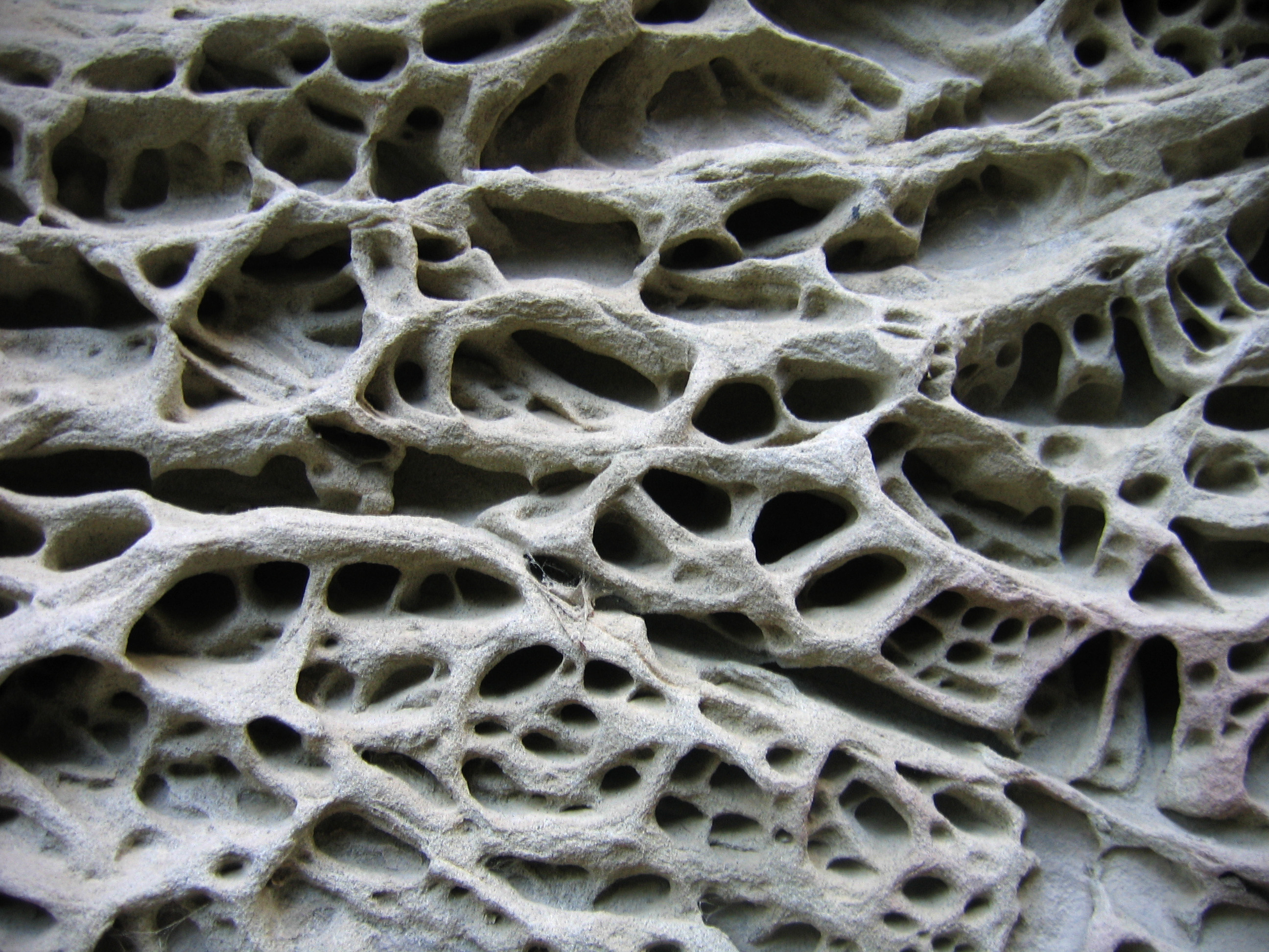 On the Tafoni Trail at El Corte de Madera Creek Open Space Preserve, California, USA. The fascinating structures that cover the sandstone are called tafoni, which is Italian for cavern. Geologists first used the word tafoni to describe sandstone formations found on the island of Corsica, and the term "alveolar weathering" to describe the process that created these formations. This complex weathering process that creates the caves, columns and sandy surfaces that are smooth in some areas and covered with labyrinths of knobs and ridges in others, takes place over thousands of years. This is how it works: During the rainy season, water soaks deep into the sandstone and mixes with the calcium that is there. As the water evaporates from the stone during the dry summer season, some of the dissolved calcium is drawn out to the surface of the stone where it forms a hard outer layer called the duricrust. This evaporation process causes any calcium remaining in the interior of the stone to be distributed unevenly so that there are some soft, low-calcium areas and some hard, high-calcium areas. If the outer surface of the sandstone is cracked or broken, the softer parts of the interior erode away more quickly than the harder areas, forming caves, caverns and tafoni formations. 'Tree trunk' and 'cannonball' formations, and delicate honeycomb structures known as 'fretwork' or 'stone lace', are all tafoni formations found at this site. These intricate patterns result from the different erosion rates of the harder and softer regions within the sandstone. The harder regions with more calcium stay cemented together, while the softer regions with less calcium erode away. The 'tree trunks', 'cannonballs', and knobs and ridges in the fretwork are regions in the sandstone that have more calcium and resist erosion.Tafoni